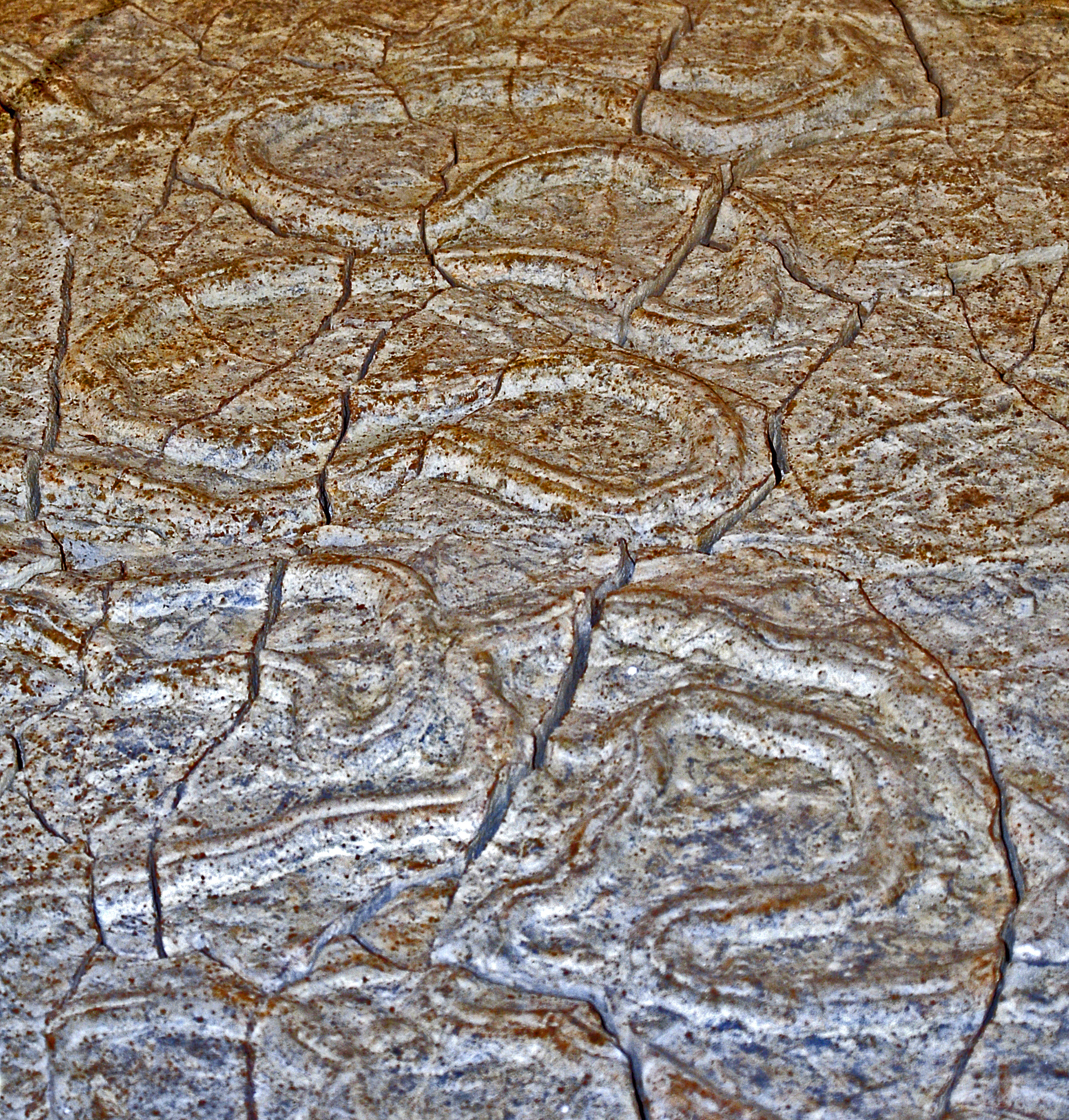 Scolicia strozzii (Savi and Meneghini, 1851), trails made by echinoids abt. 65-40 mya from Italy, on display at the Museo di Storia Naturale e del Territorio, Calci (Province Pisa), Italy